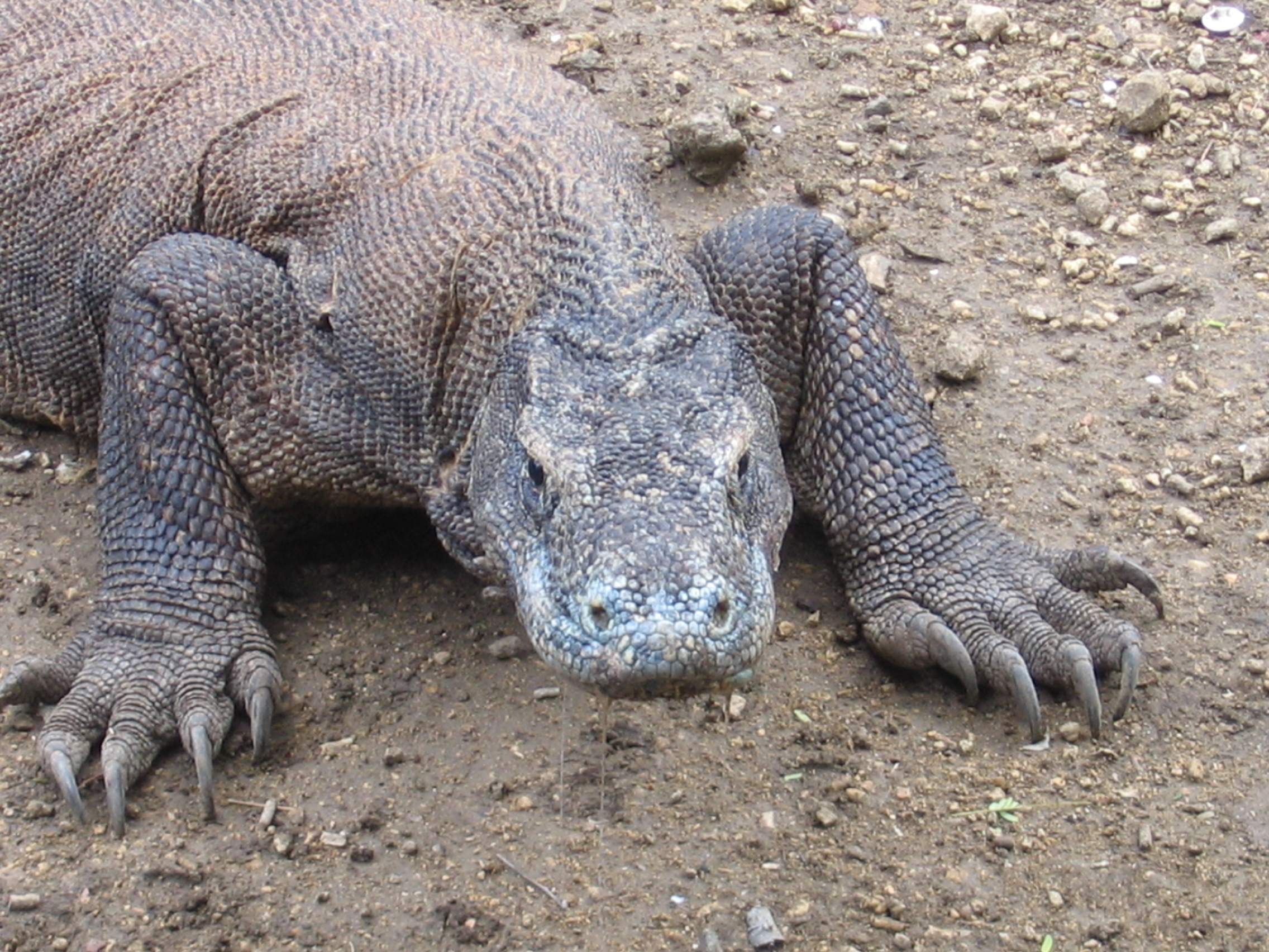 What do looking at, Man?